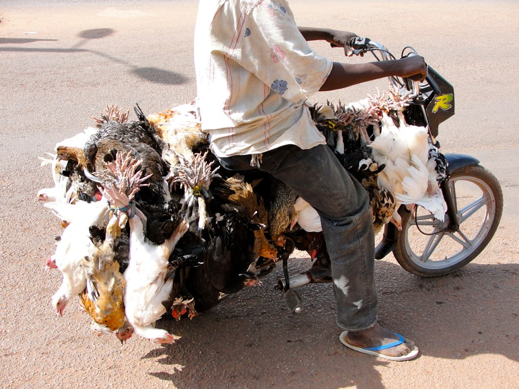 A man rides a motorcycle with dead chickens attached to its back and sides.